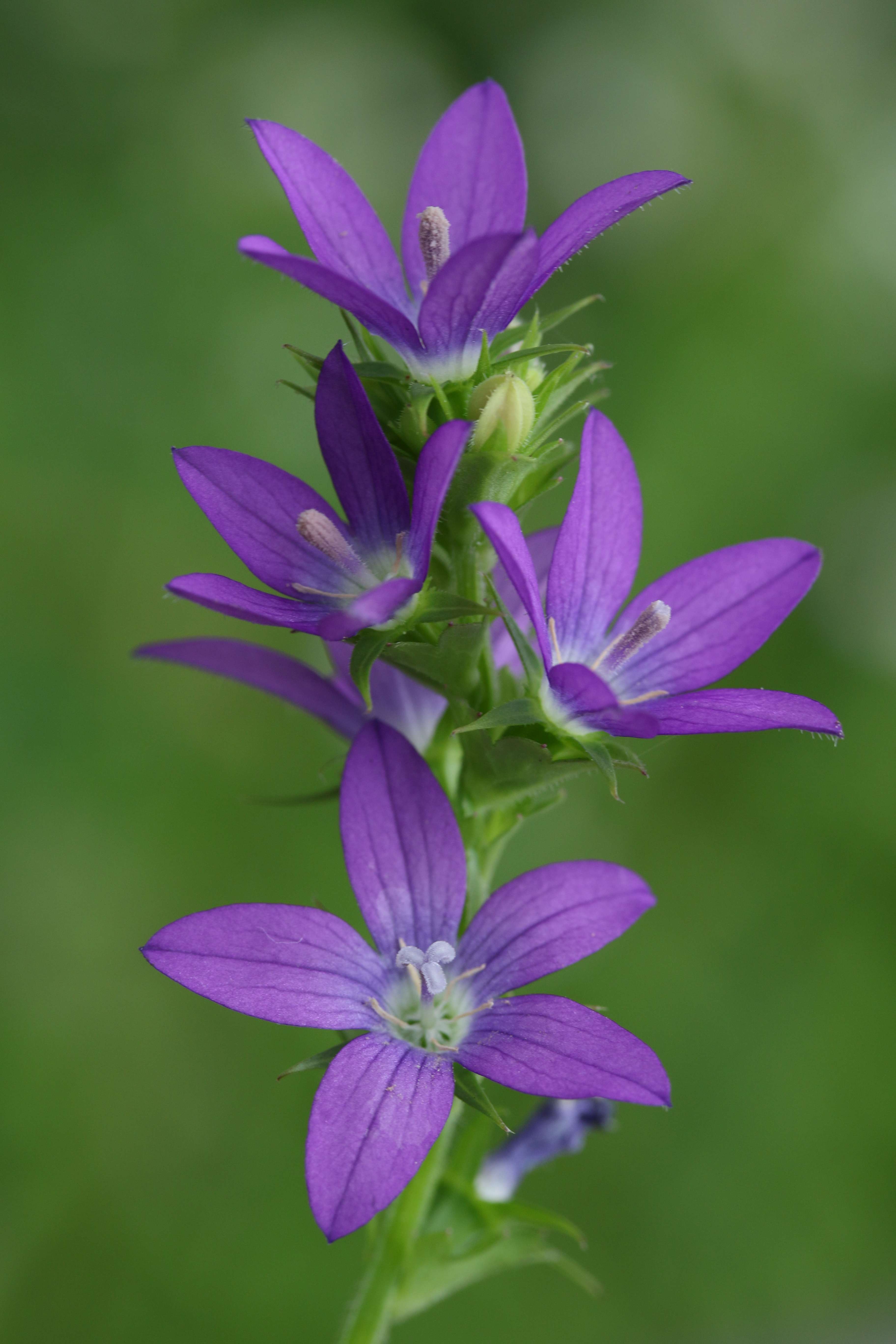 Triodanis perfoliata in Yokohama, Japan